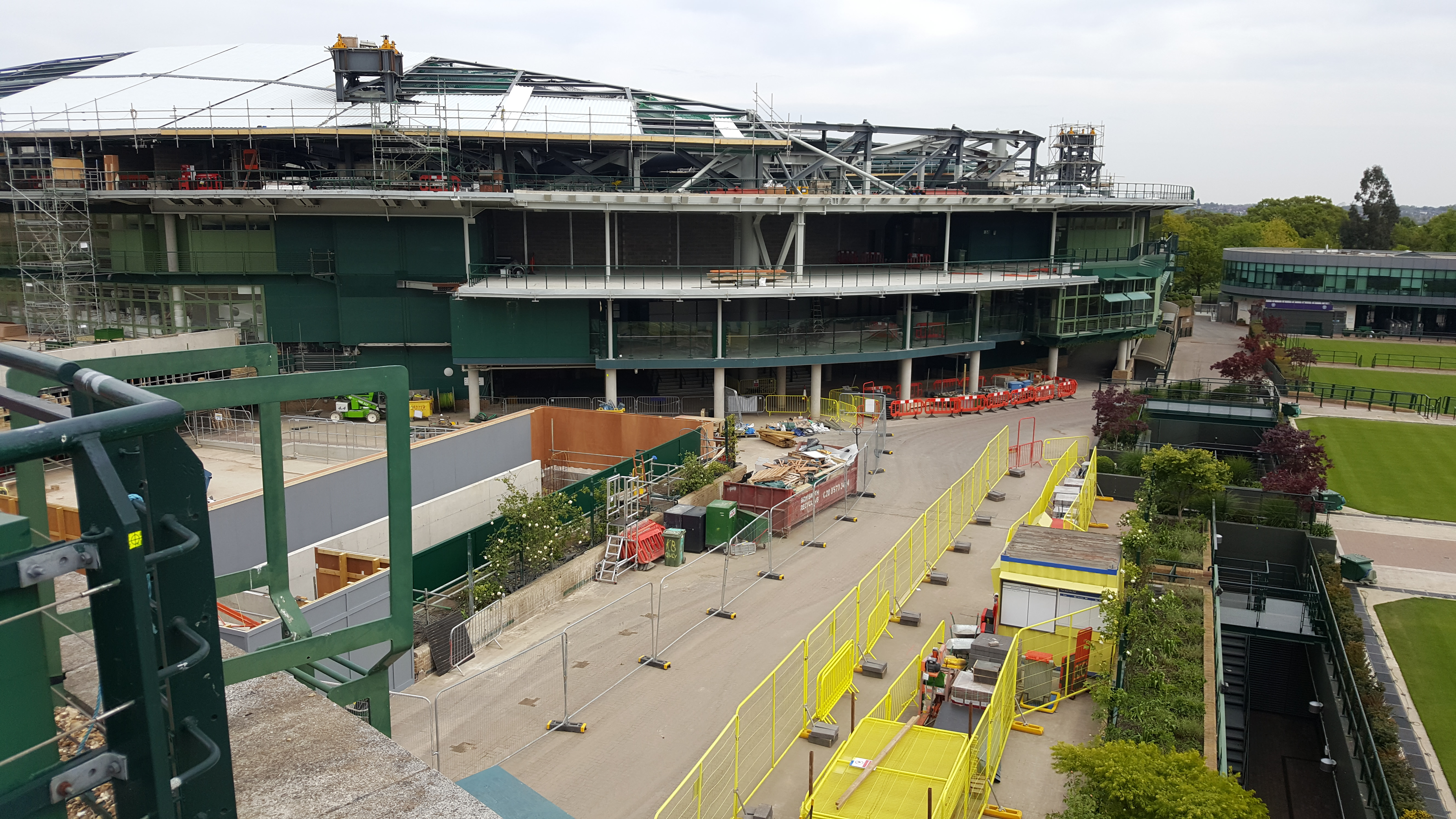 No. 1 Court at the All England Lawn Tennis and Croquet Club, Wimbledon, London seen under renovation works in April, 2017 in order to build a retractable roof.